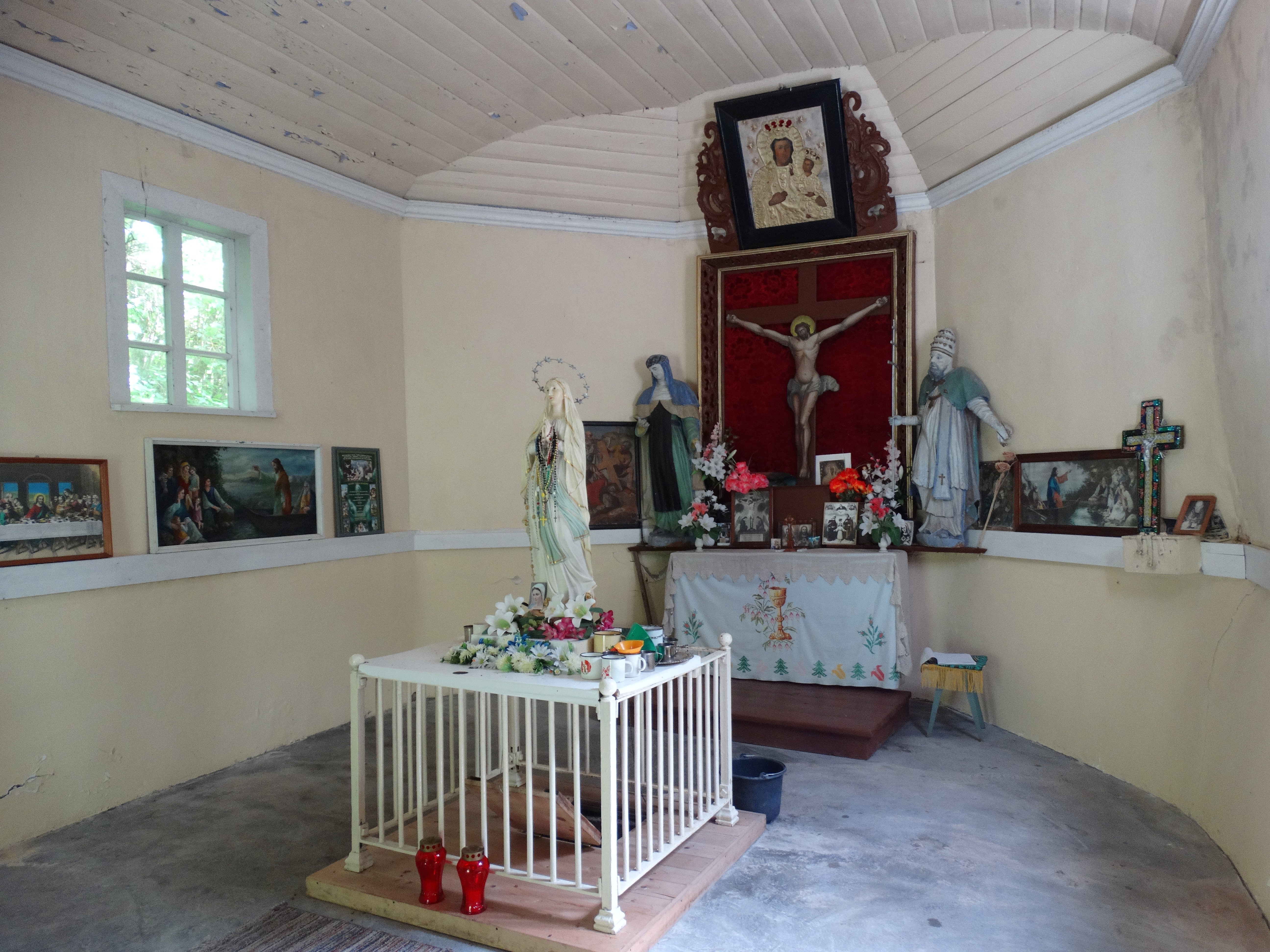 Chapel in Ugioniai, Raseiniai District, Lithuania